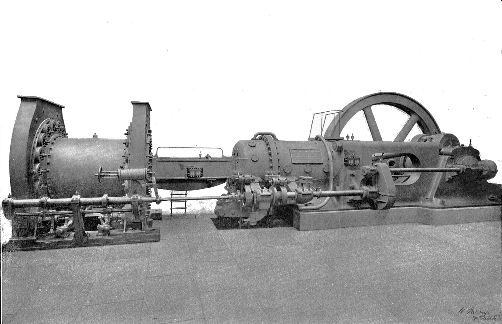 Blast furnace gas engine with blowing cylinder (Rankin Kennedy, Modern Engines, Vol II).jpg